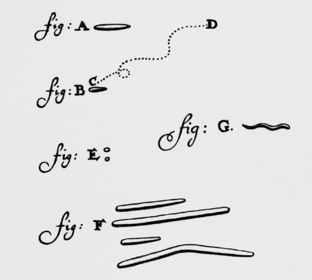 Picture of animacules in a letter to Royal Society